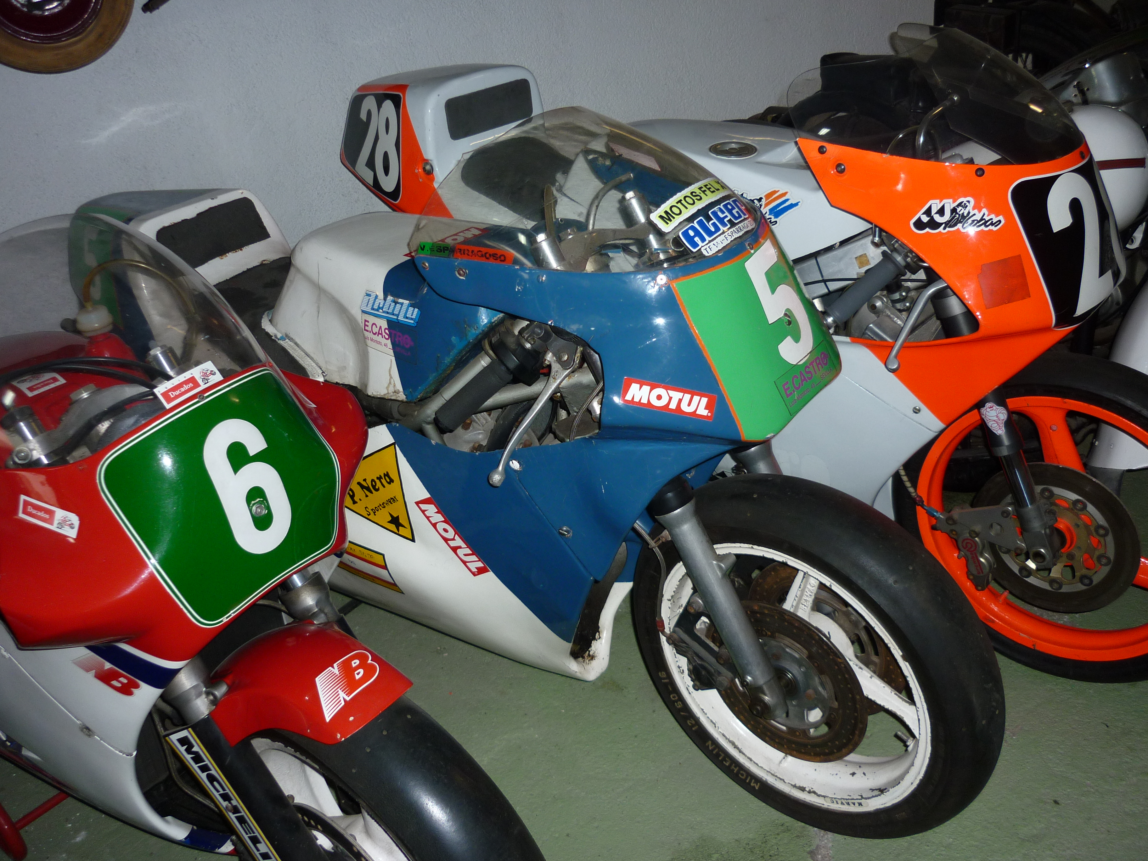 In blue: Arbizu 250cc by 1985